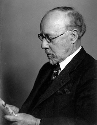 Portrait of John Garstang. Taken July 15, 1956 (80 years old). Photo from Garstang family album - posted by a Garstang family member. Photo should appear in Wikipedia article for John Garstang.